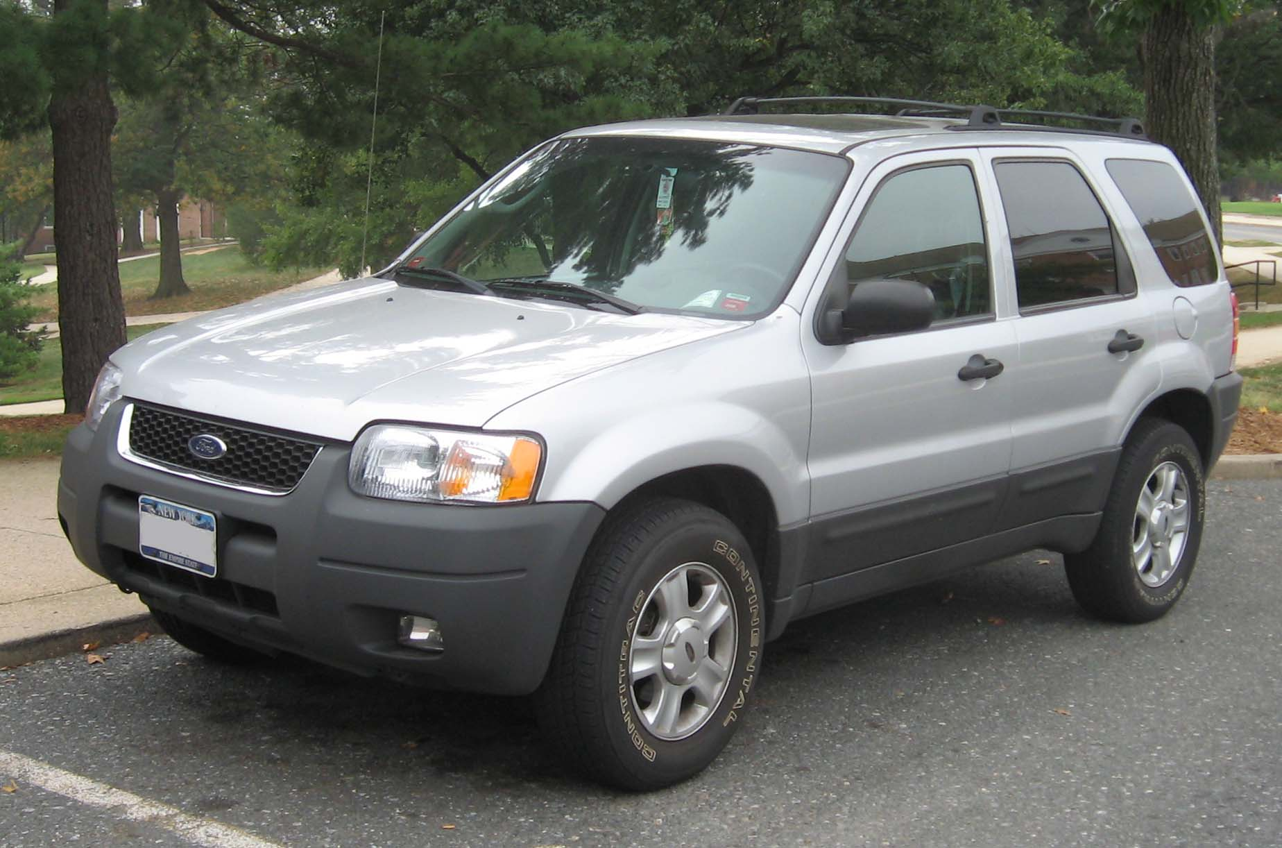 2001-2004 Ford Escape photographed in College Park, Maryland, USA.